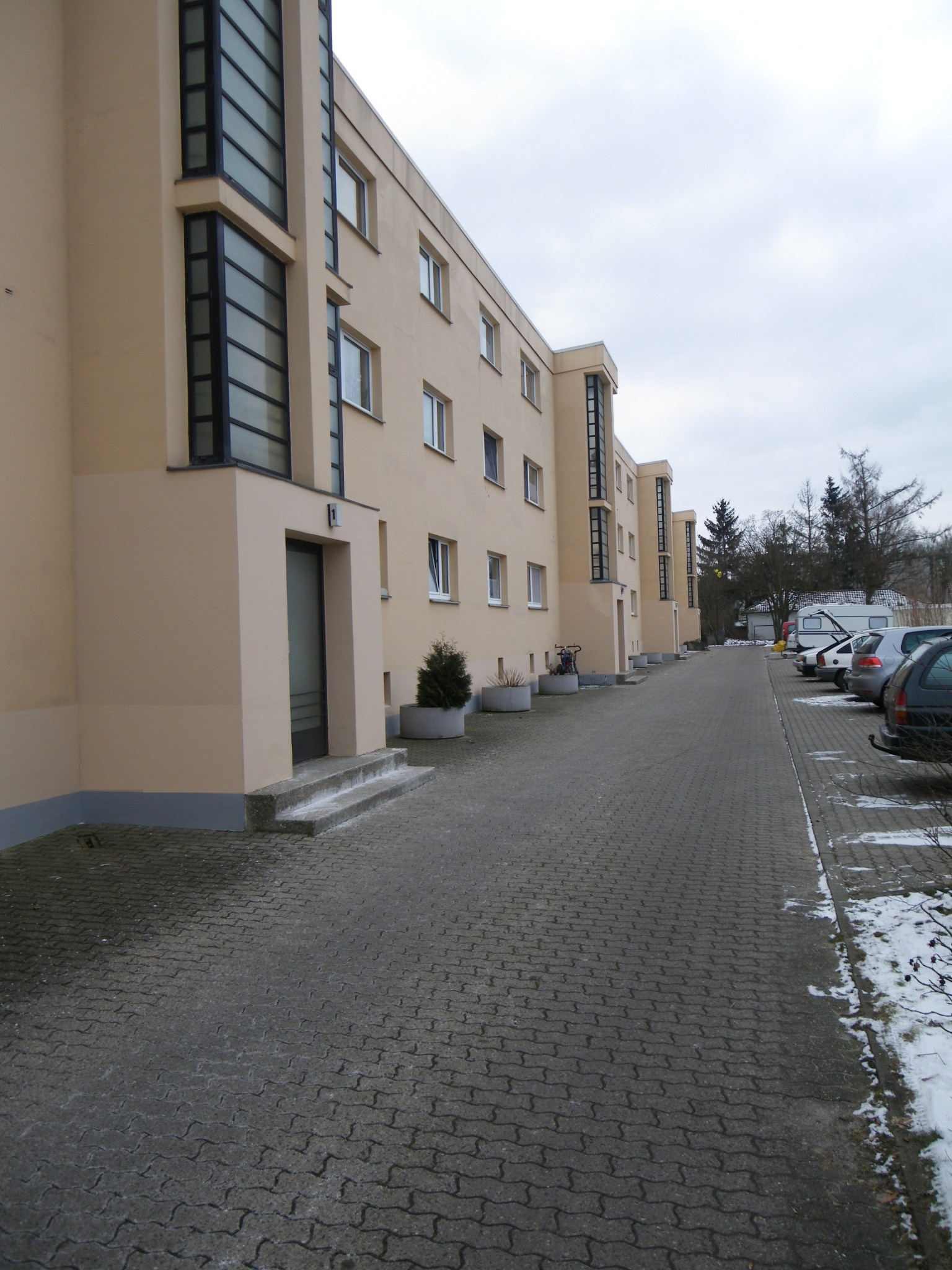 Suburban Colony Georgsgarten in Celle, Architect Otto Haesler